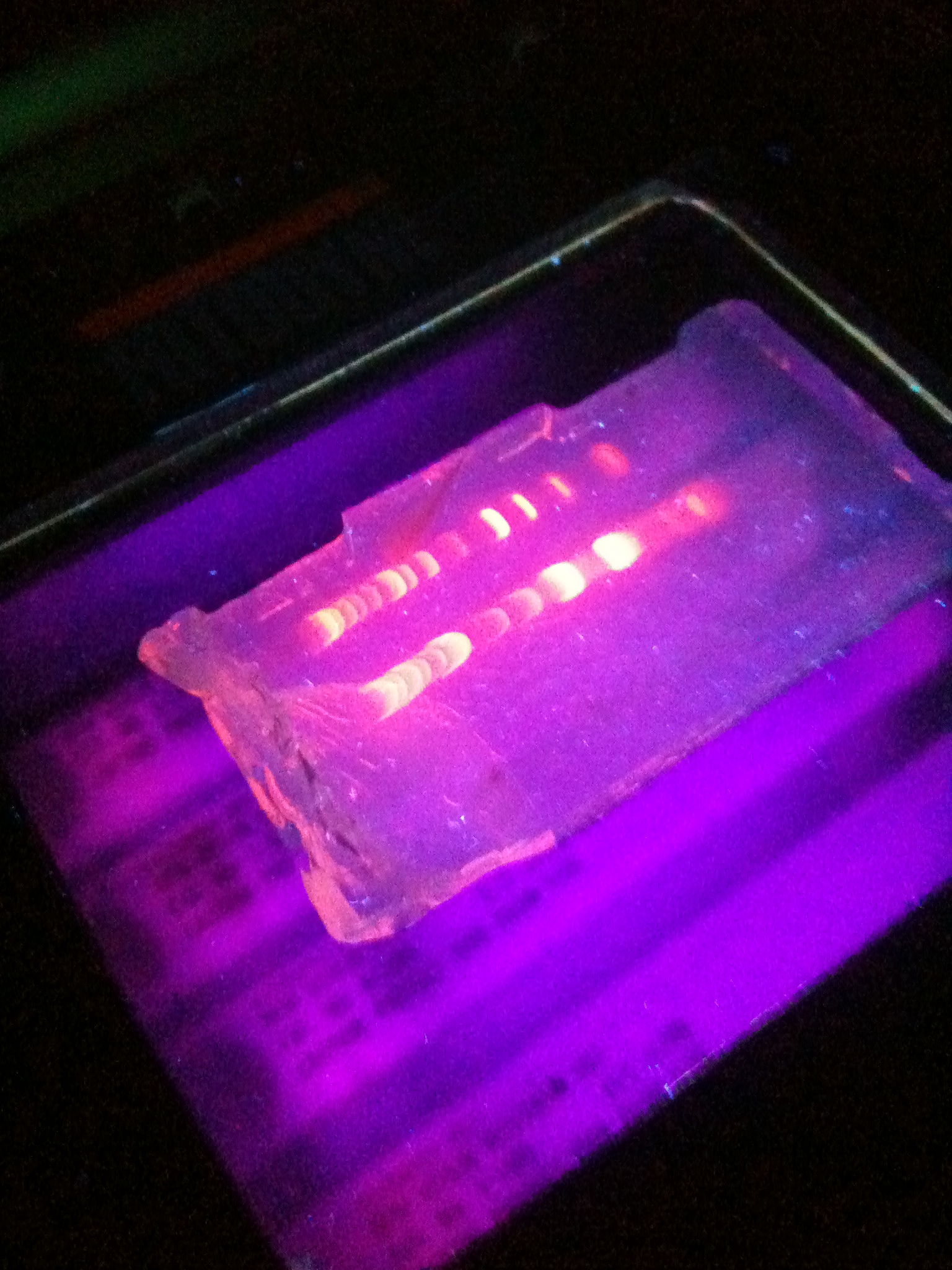 1.2% agarose gel with two different DNA ladders. GelRed stain was used.